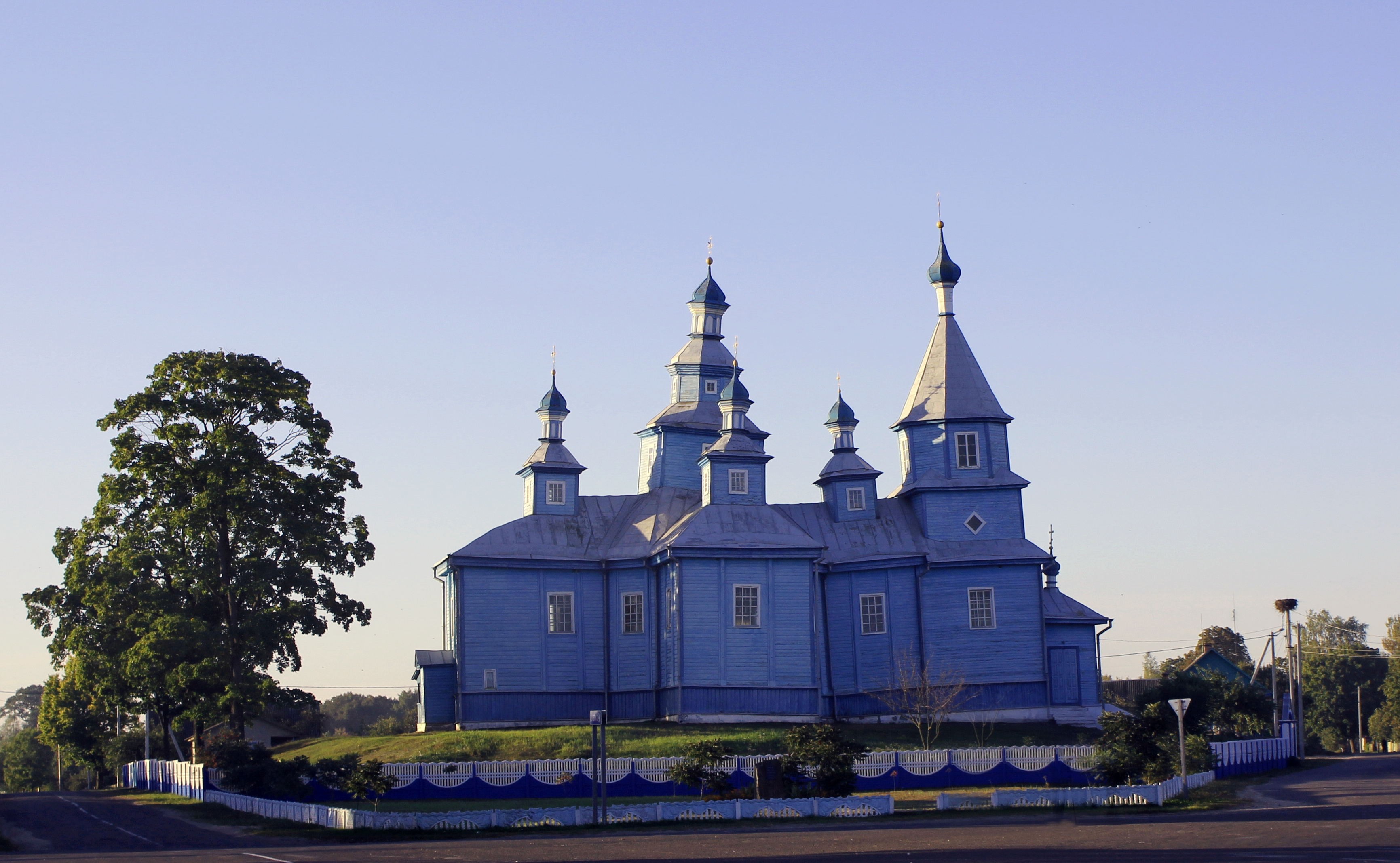 Nikolaevskaya Church (or "Leaning" church) in Kozhan-Gorodok (Belarus), which domes look in different directions.